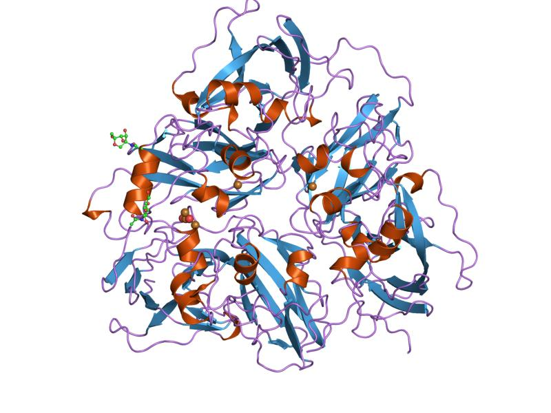 Cartoon representation of the molecular structure of protein registered with 1kcw code.